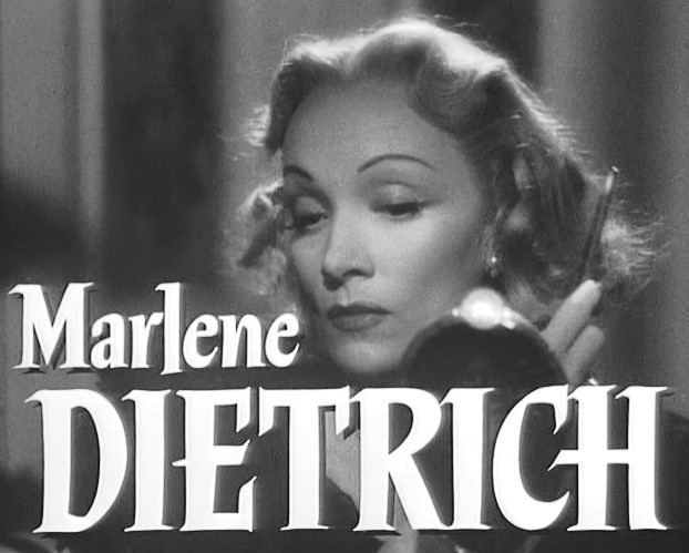 Cropped screenshot of Marlene Dietrich from the trailer for the film Stage Fright (1950).